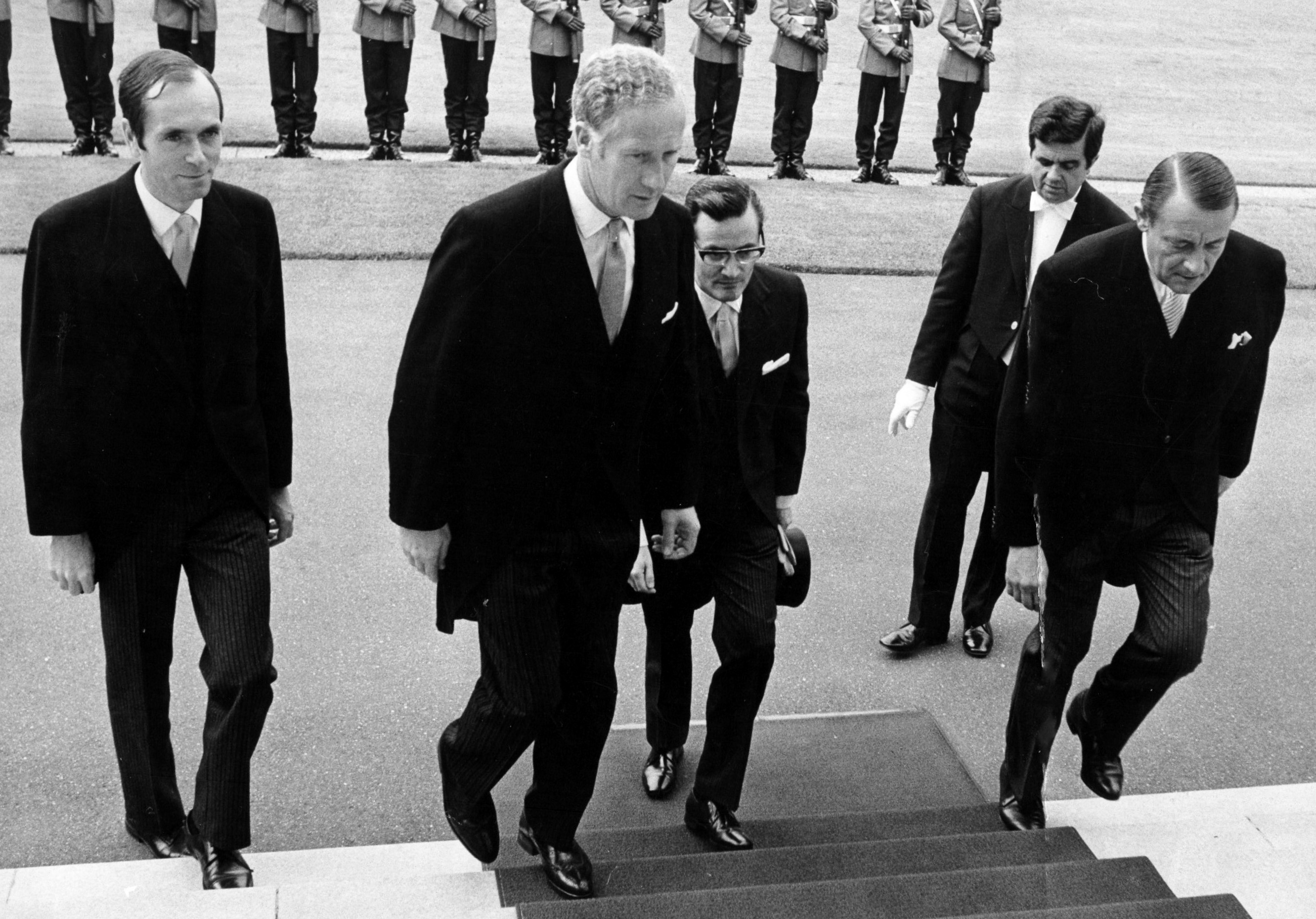 H.E Ambassador Ismael Moreno Pino (Mexico) on the day of his presentation of letters of credence to H.E. Dr. Gustav Heinemann, President of the Federal Republic of Germany (1969-1974) on the 17 August 1972 at the Villa Hammerschmidt, the official residence of the Bundespräsident (Deutschland).